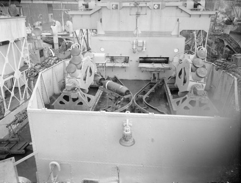 Anti-submarine Mortar Mark IV Squid launchers and loading apparatus on the forecastle of Loch class corvette, HMS Loch Fada, in Gladstone Dock, Liverpool.